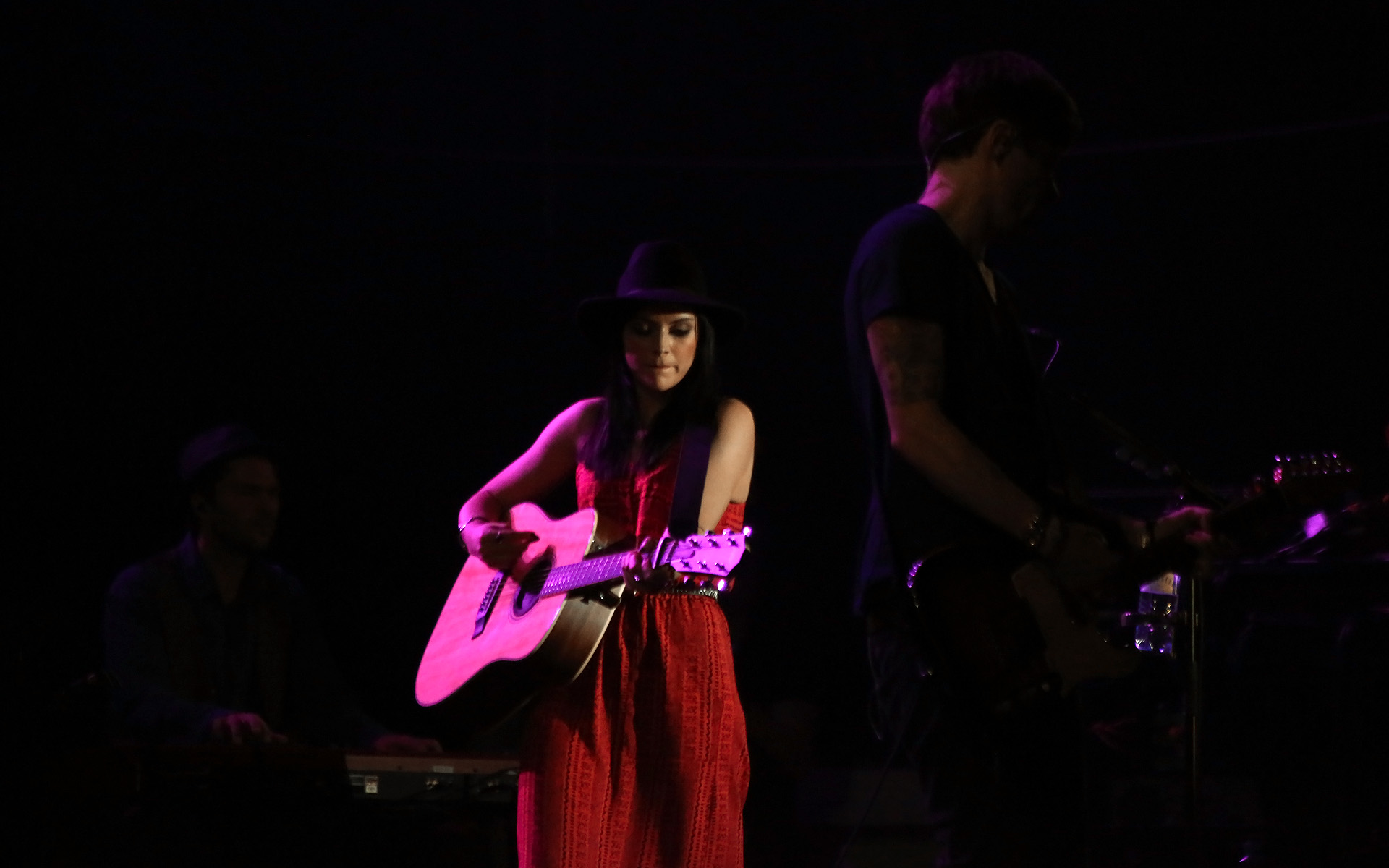 Amy Macdonald - Donauinselfest 2013 in Vienna, Austria